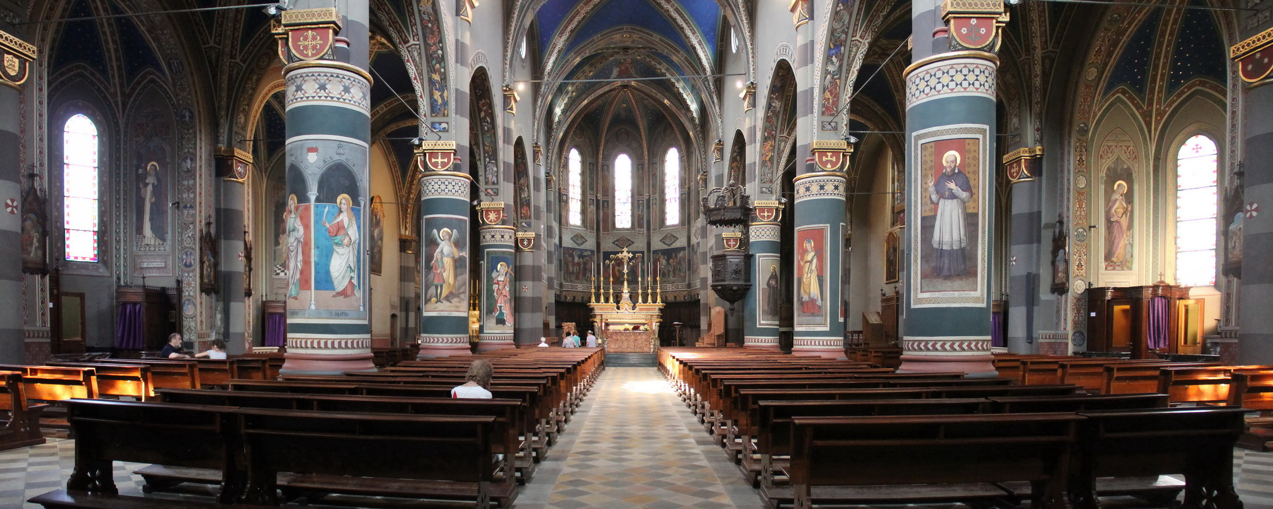 Cathedral San Donato Native nameDuomo di PineroloLocationPinerolo, ItalyCoordinates44° 53′ 08.52″ N, 7° 19′ 47.28″ E Web page Authority control : Q743305 institution QS:P195,Q743305